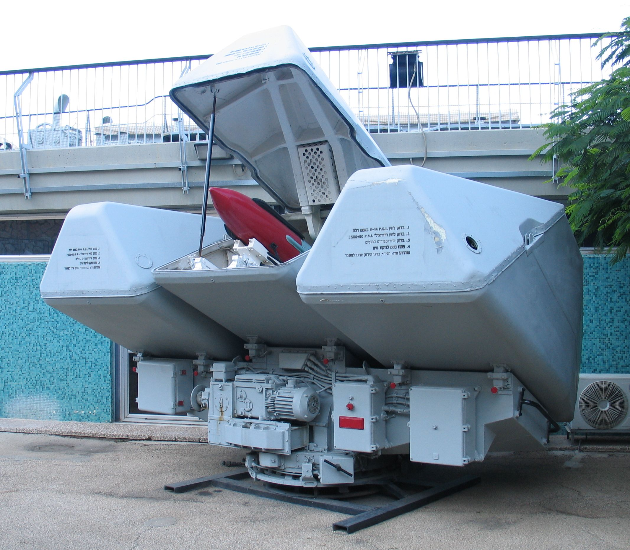 Triple Gabriel anti-ship missile launcher in the Clandestine Immigration and Naval Museum, Haifa, Israel.